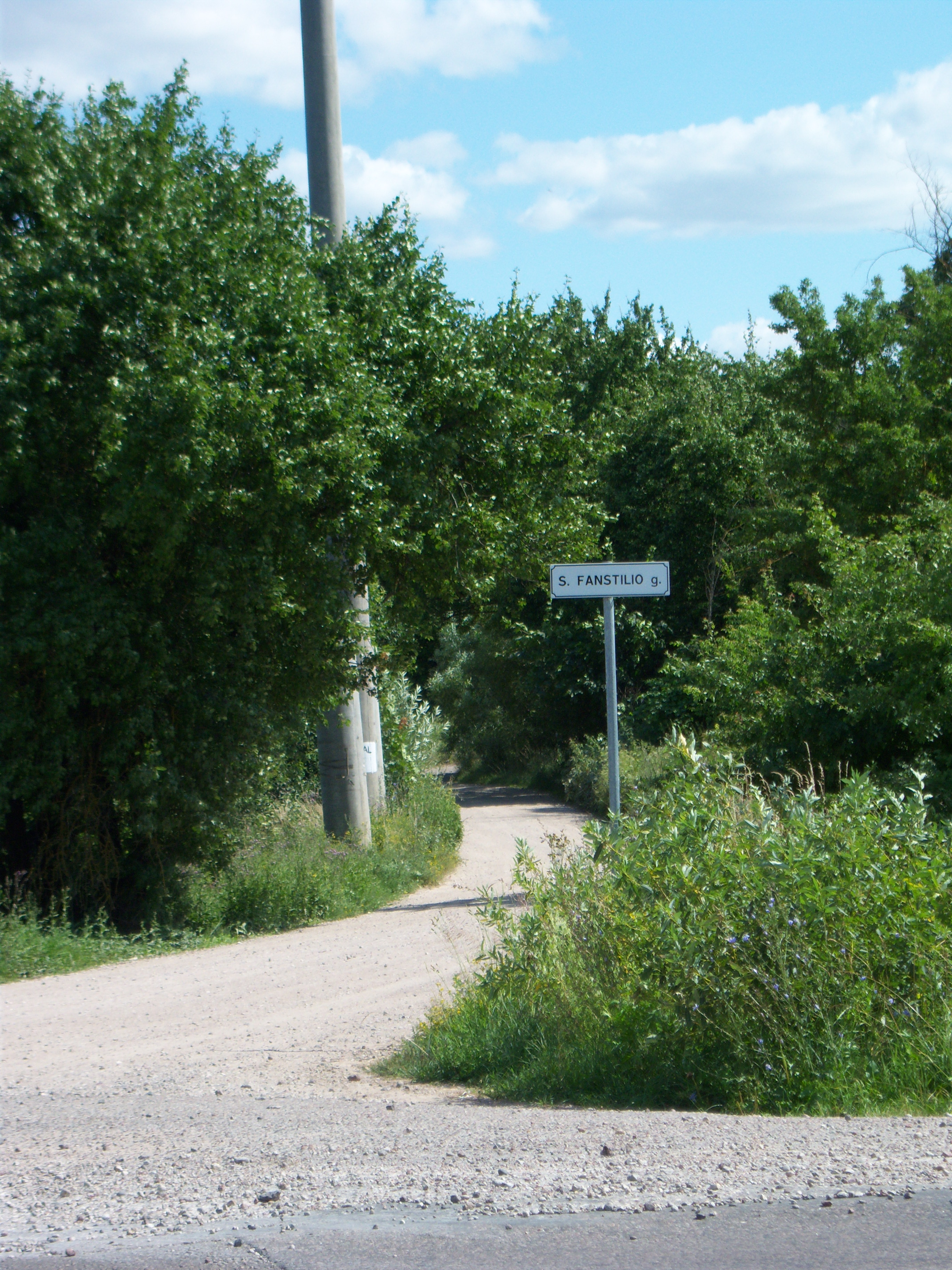 Sergey Fanstill Street, Kaunas, Lithuania